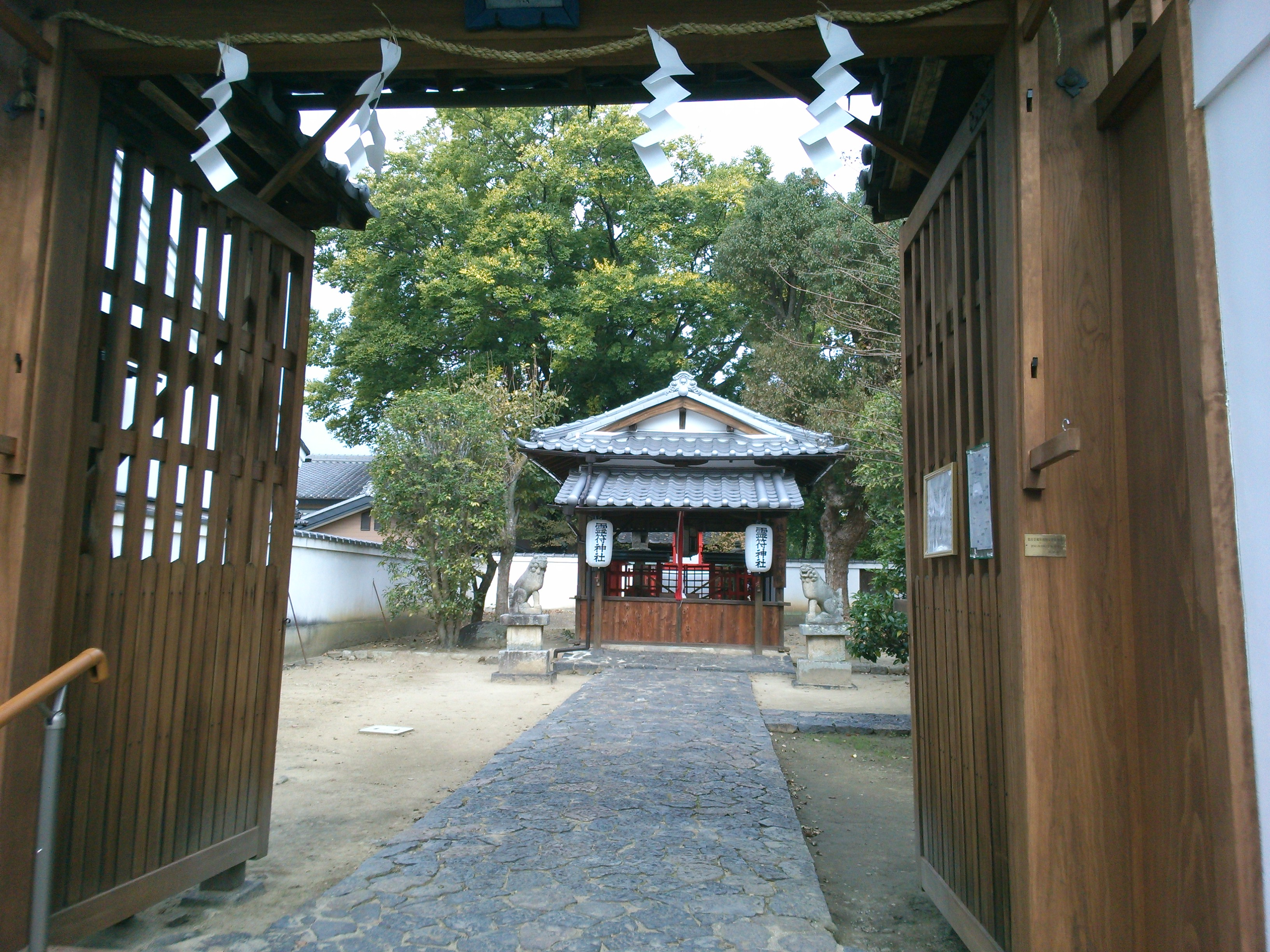 Chintaku Reifu Shrine in In'yō-chō, Nara City, Nara Prefecture, Japan.